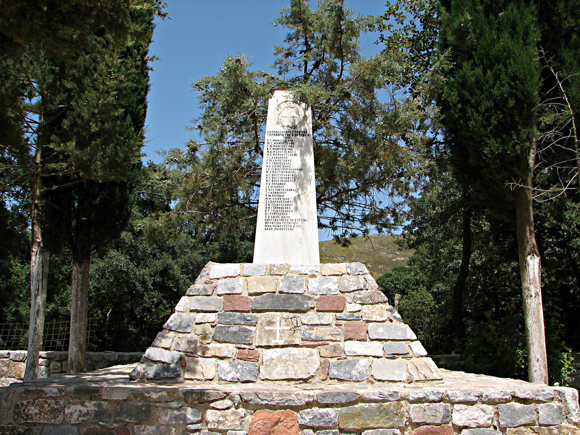 Monument and names of victims of the 1943 executions carried out by Nazi collaborationists in Kallikratis, Crete.